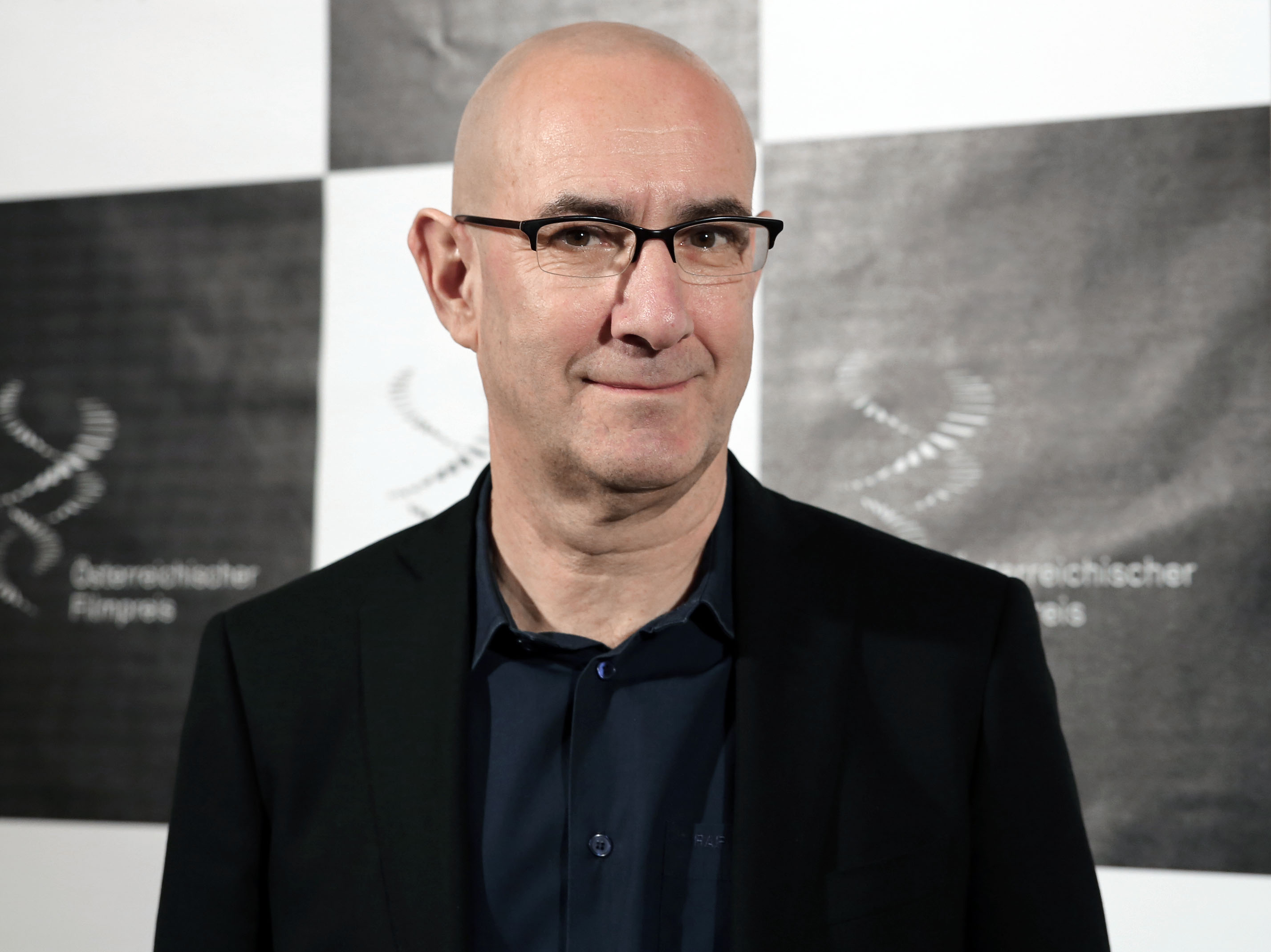 Michael Seeber, Austrian Film Awards 2013 (Vienna).